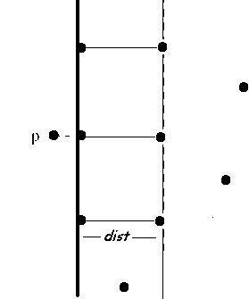 An illustration to the Closest pair of points problem. My own drawing